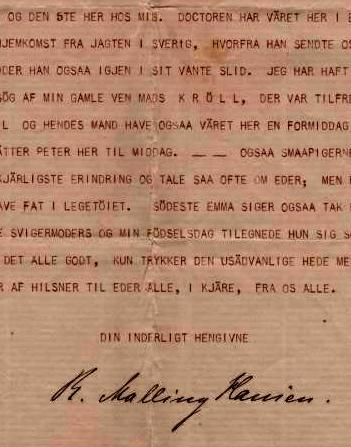 A scanning of a letter written by Malling-Hansen on a writing ball to his brother, Jørgen in 1872.